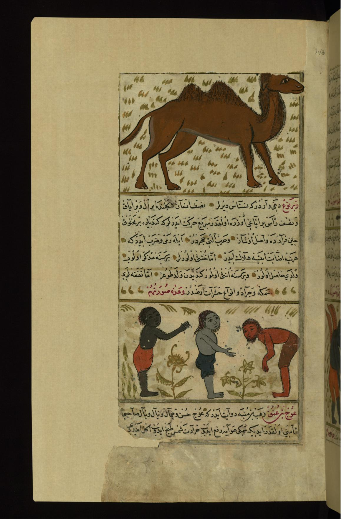 This folio from Walters manuscript W.659 depicts a camel and 3 strange single-handed and single-legged creatures.